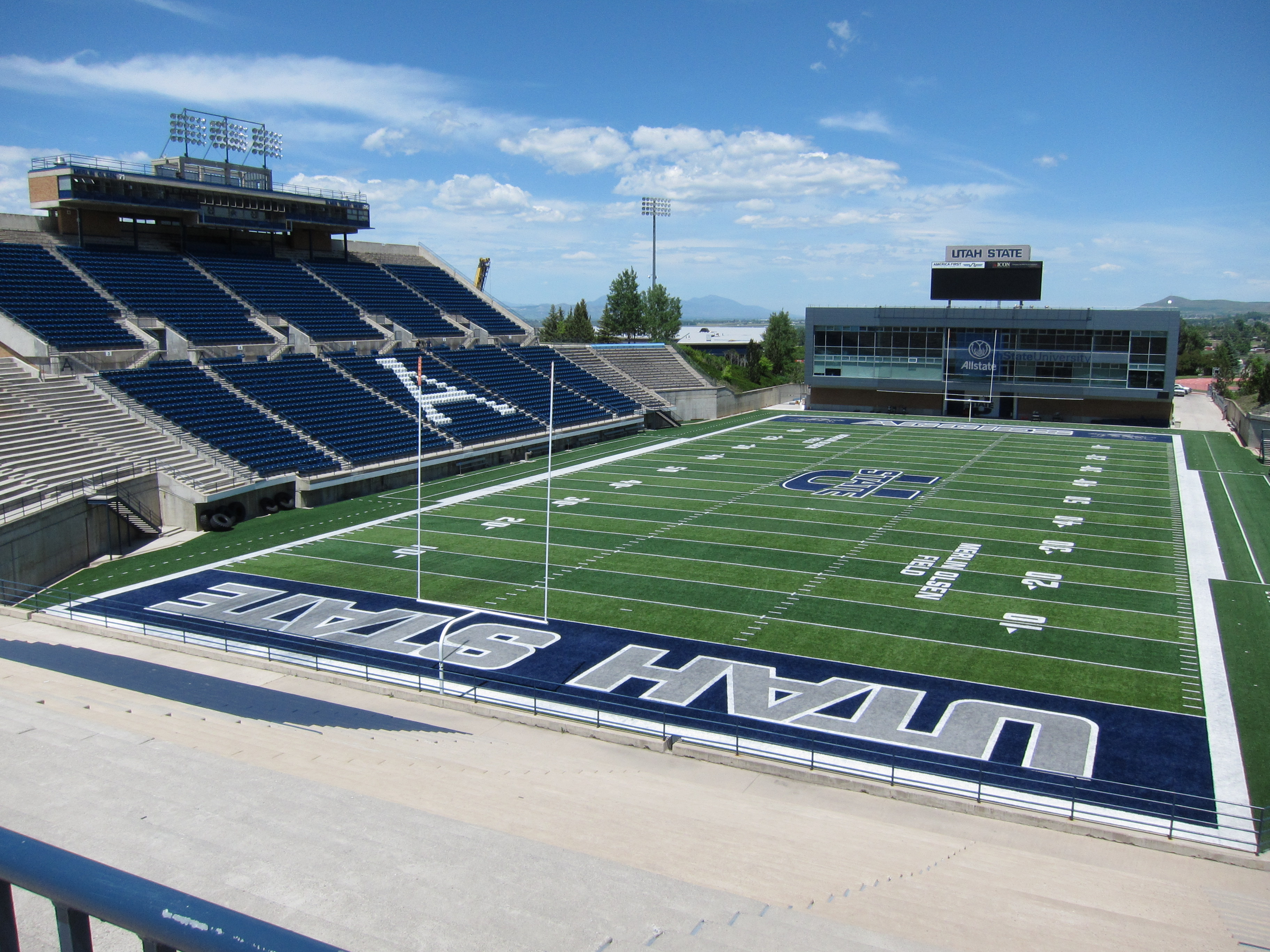 This is Romney Stadium on the Campus of Utah State University.